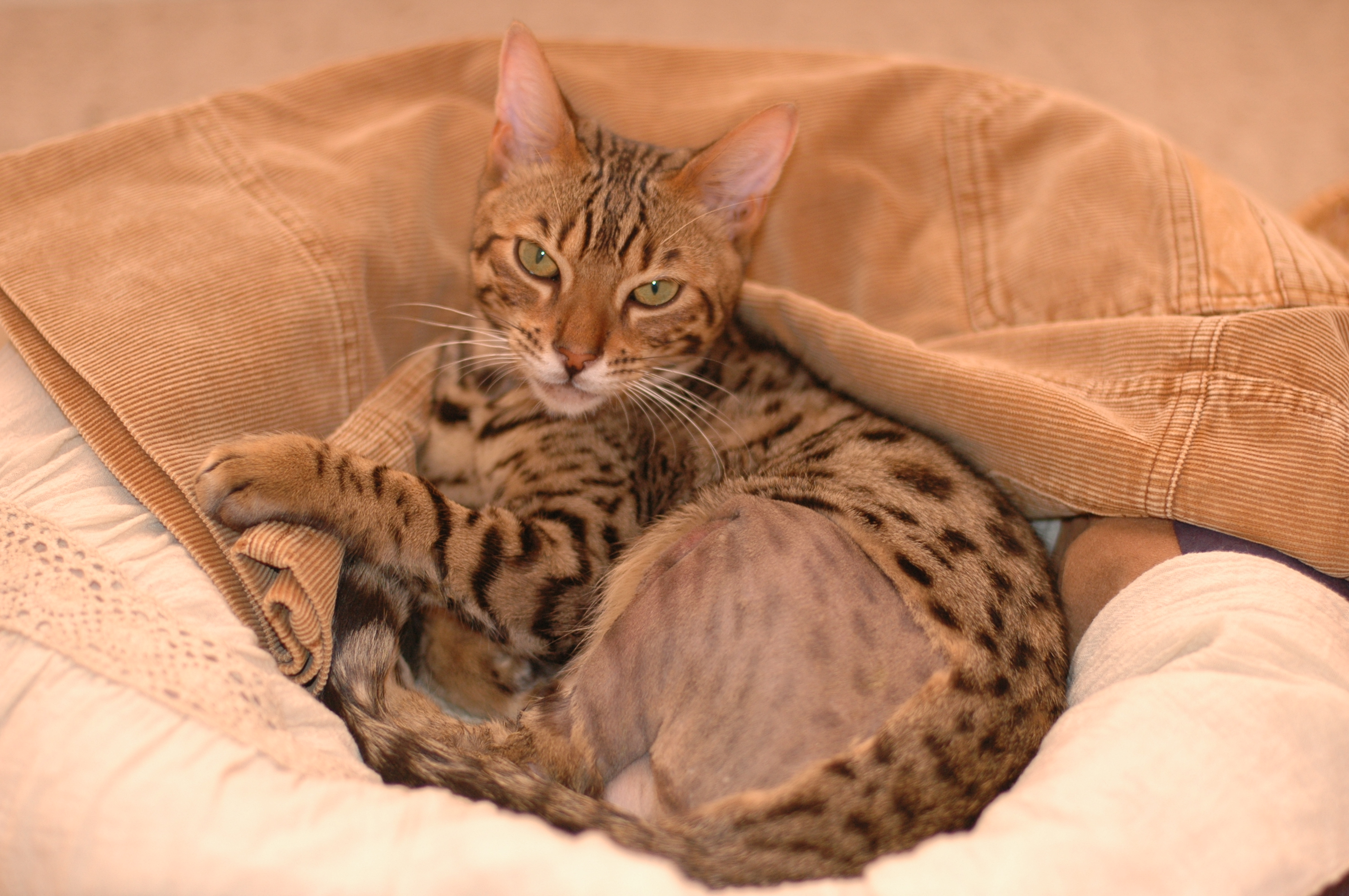 Corbett was not very impressed to have his photo taken the day after an operation to repair his luxating patellae. There was probably some pain, although he was on pretty strong medication; but I bet he felt a tad undignified with shaved legs.